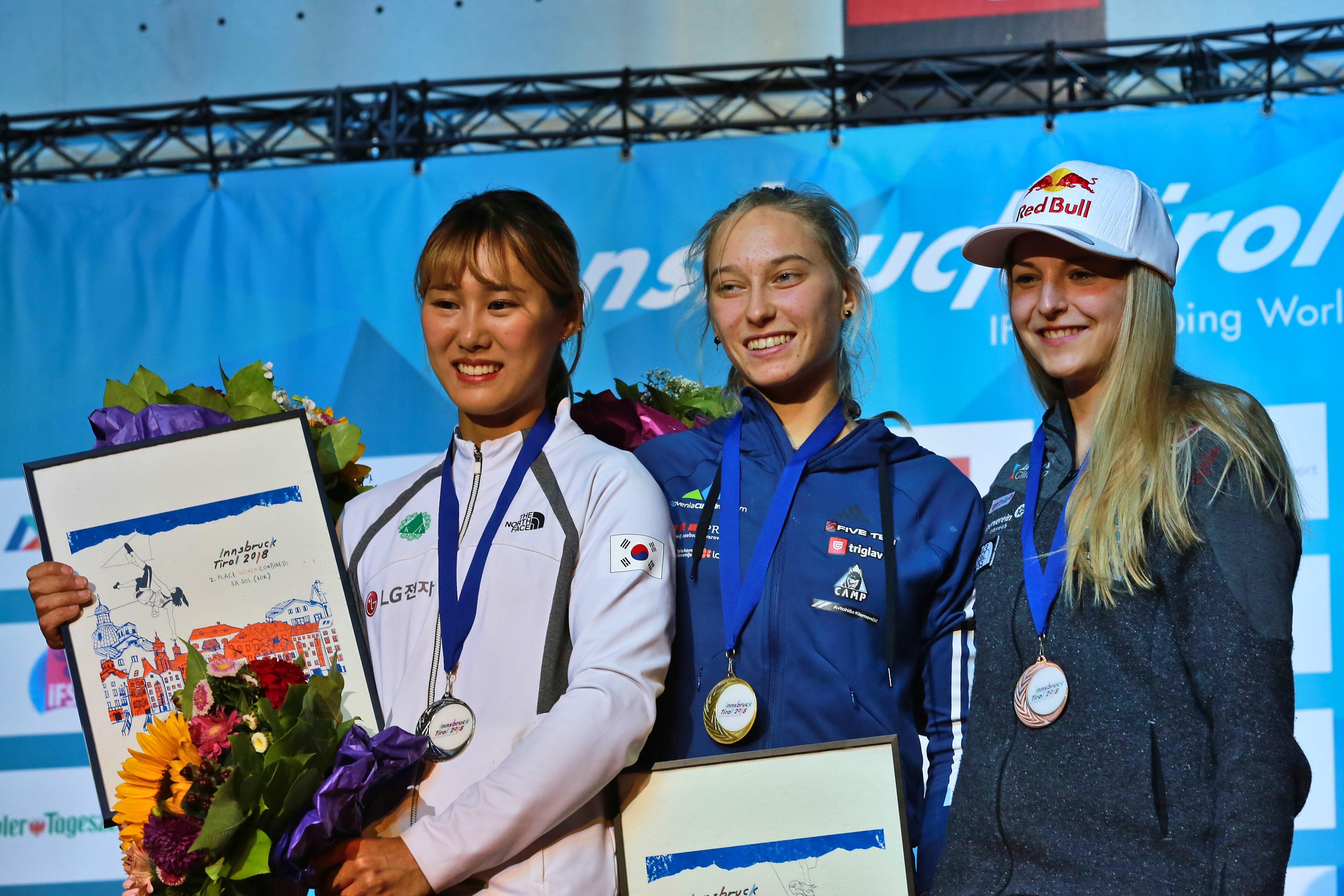 Climbing World Championships 2018 Combined Final Woman winners (2. Sol Sa, 1. Janja Garnbret, 3. Jessica Pilz)